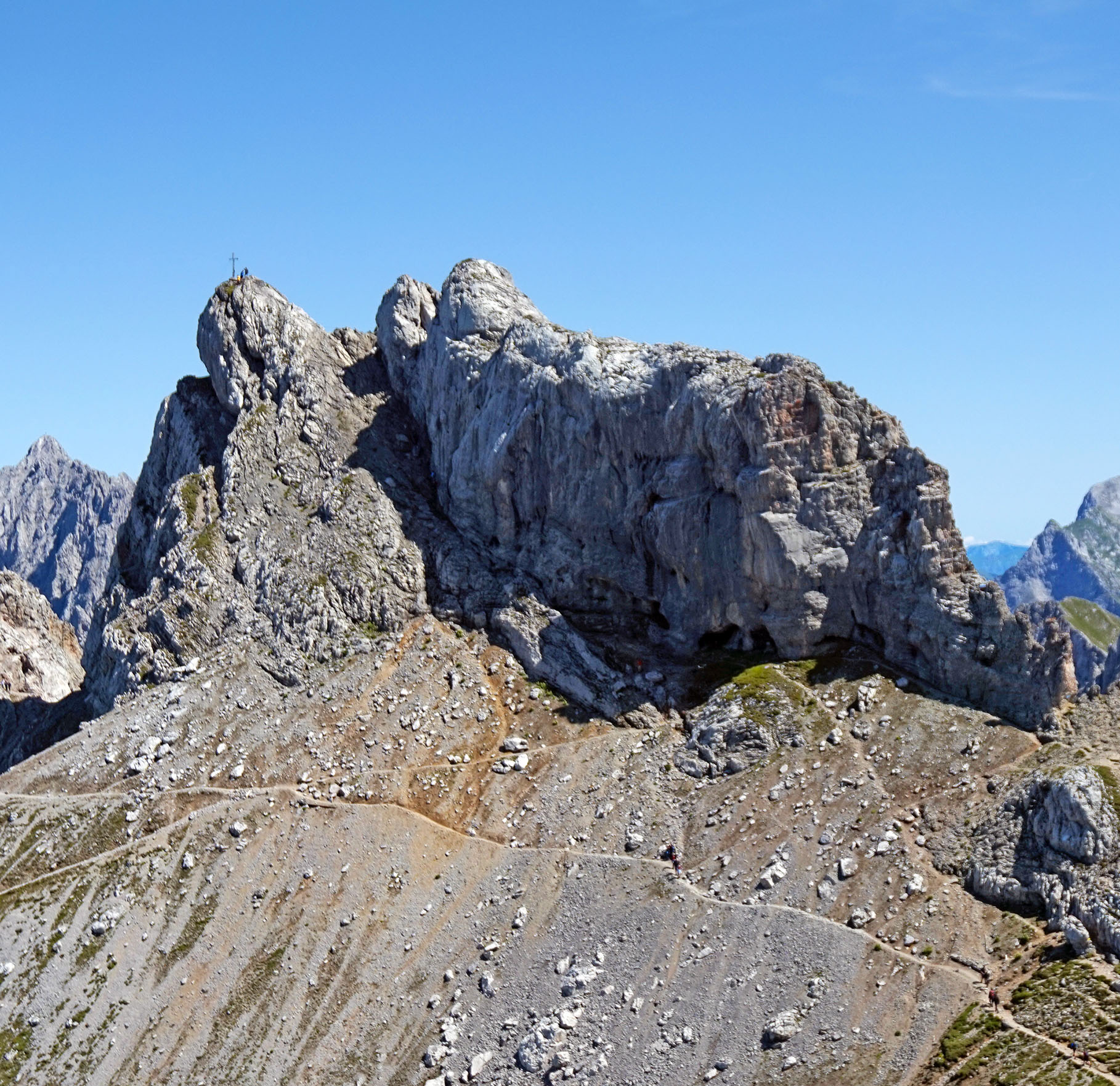 Westliche Karwendelspitze, Mittenwald, Germany. This photograph was taken with a Sony Alpha a5000.